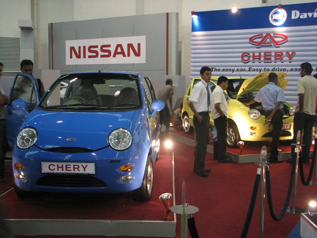 Chery QQ in Formula Plus Motor Show - October 2006